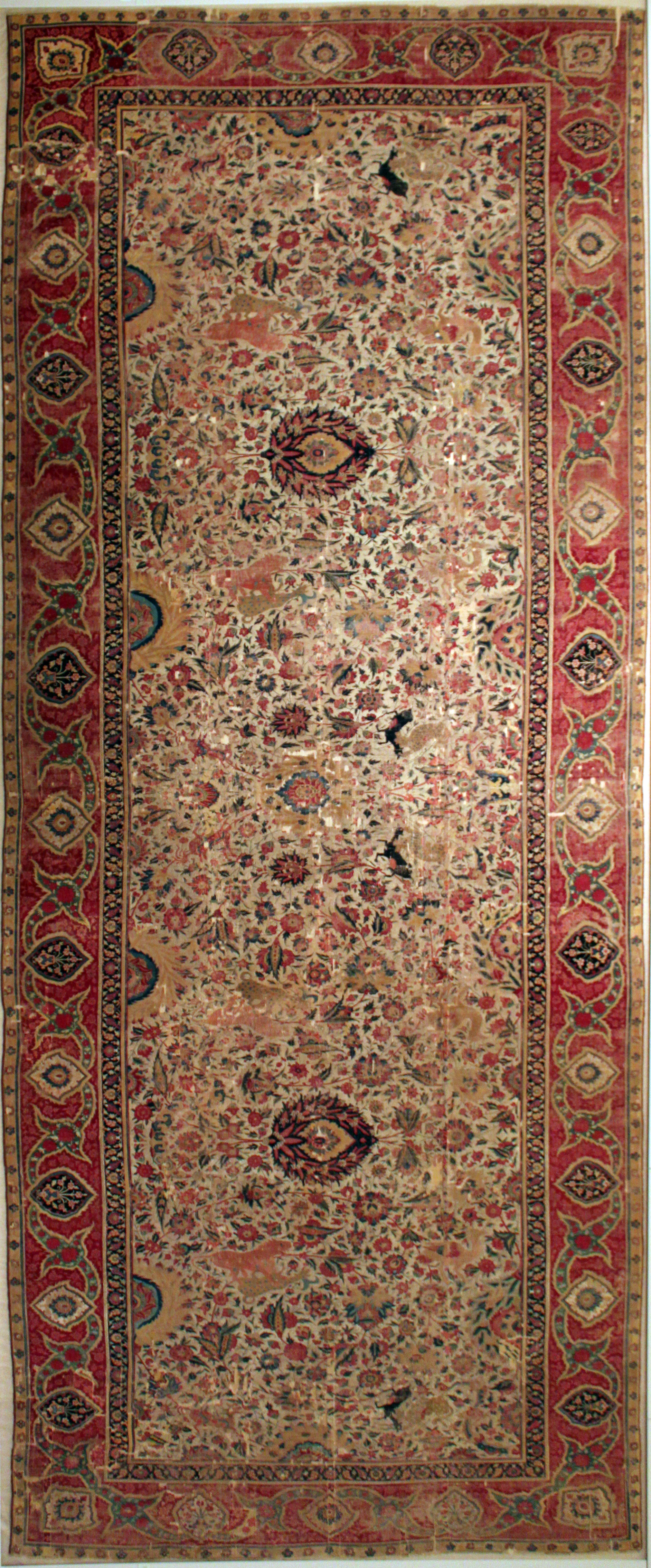 Spiral tendrils carpet, Mughal India (Lahore), 1610; Museum of Islamic Art in Berlin (Pergamon Museum), inv I. 6/74